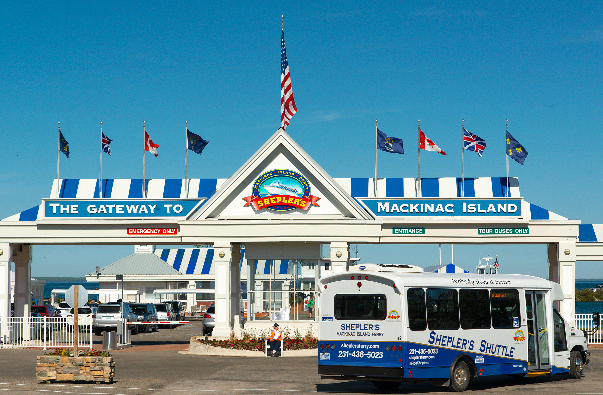 The Sheppler ferry dock, Mackinaw City, Michigan